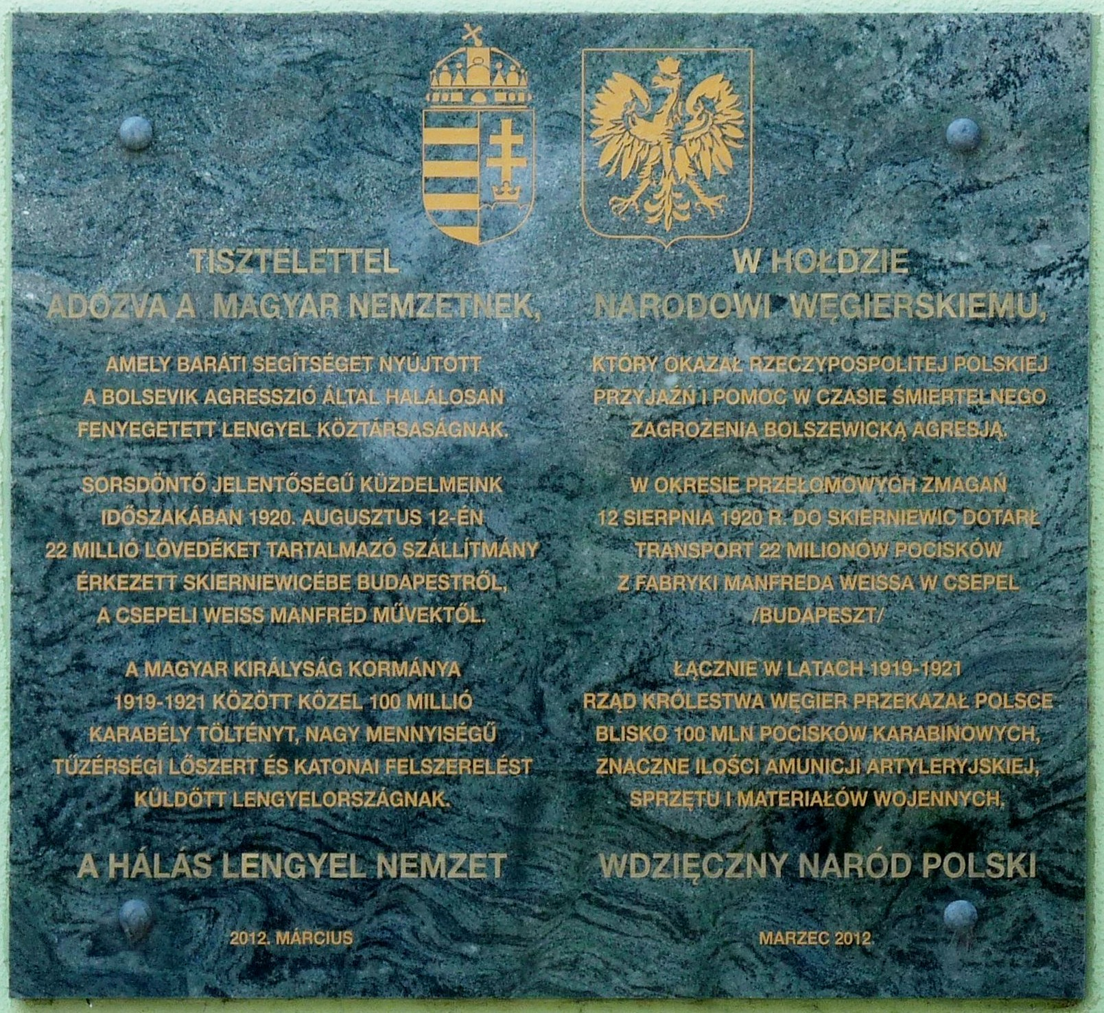 Bilingual plaque on the front of the town hall of Csepel commemorating the Hungarian aid to Poland. This is a replica of the Polish plaque witch had been unveiled March 22, 2011 near the tomb of the Unknown Soldier in Warsaw. The text in Hungarian and